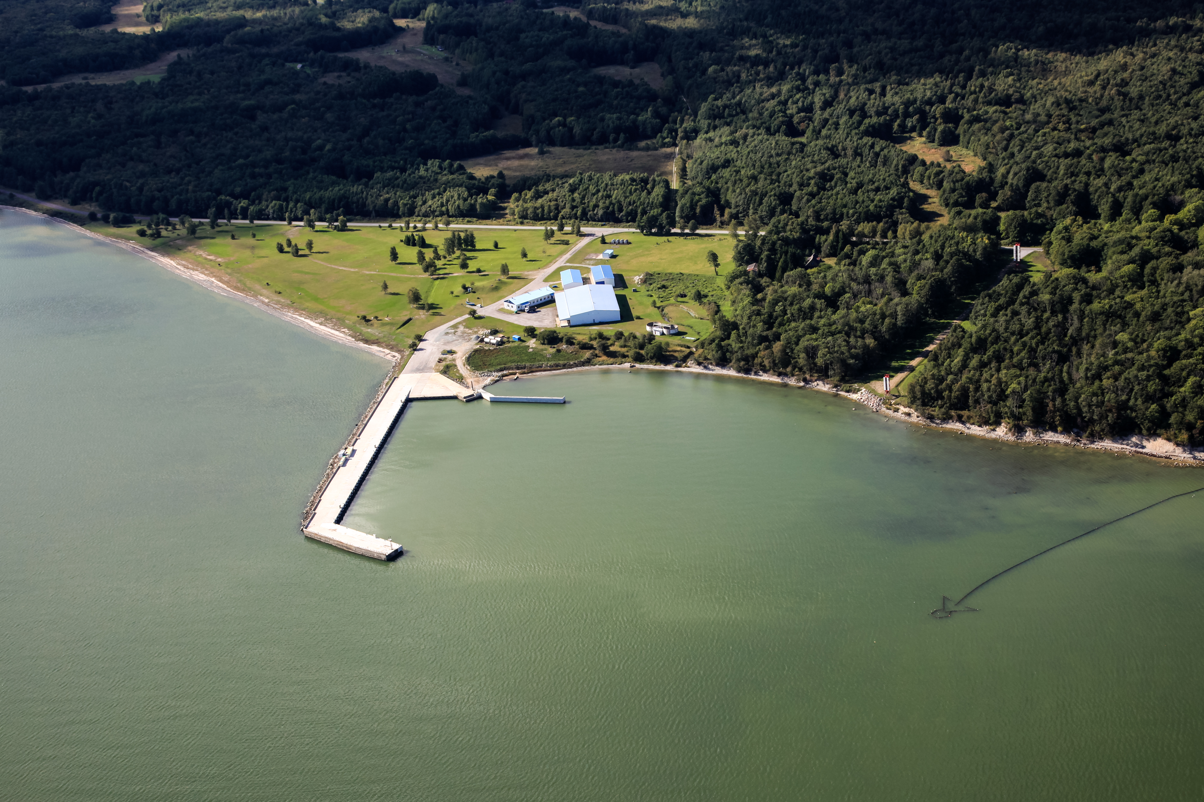 Mõntu harbour, 2015